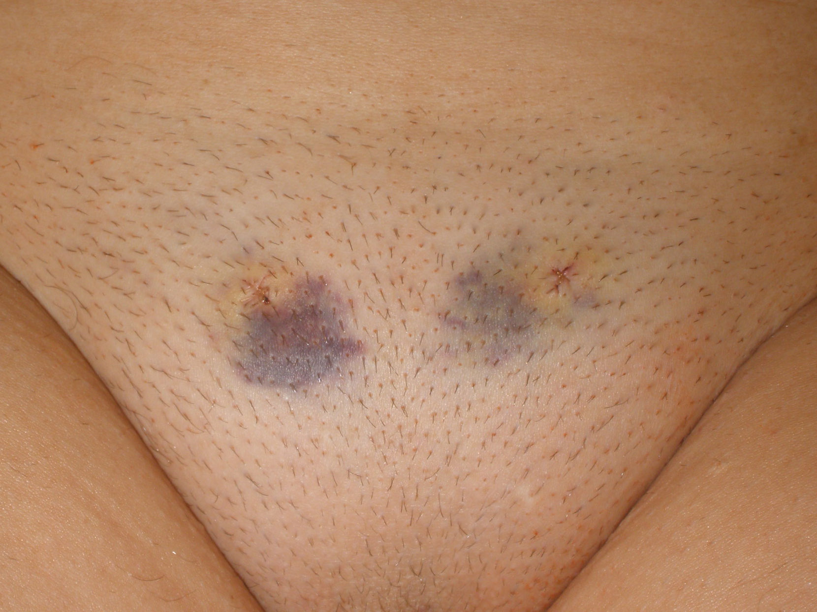 Insertion places of tension-free transvaginal (TVT) sling, three days after surgery.